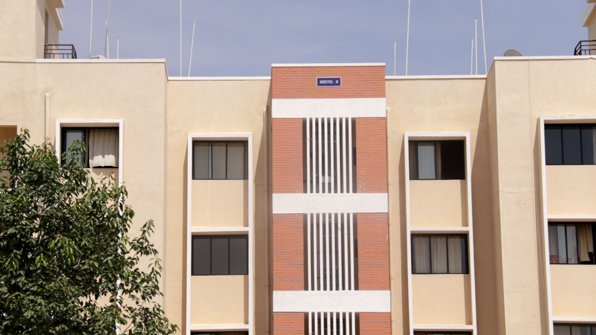 Jain University Hostel Building